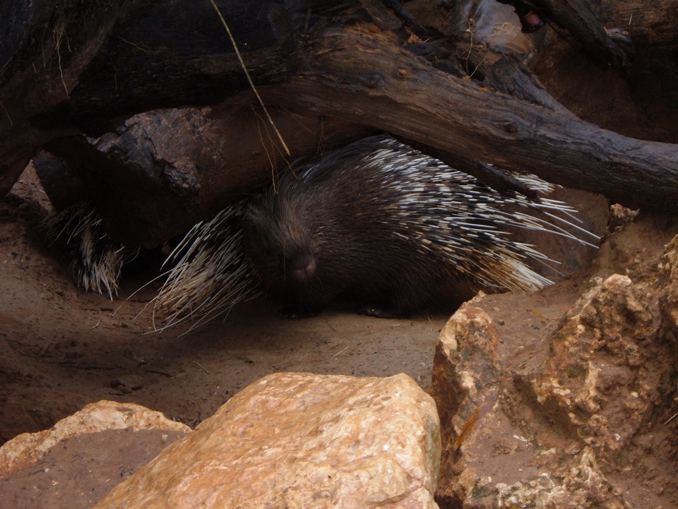 Wildlife and Plants of Israel